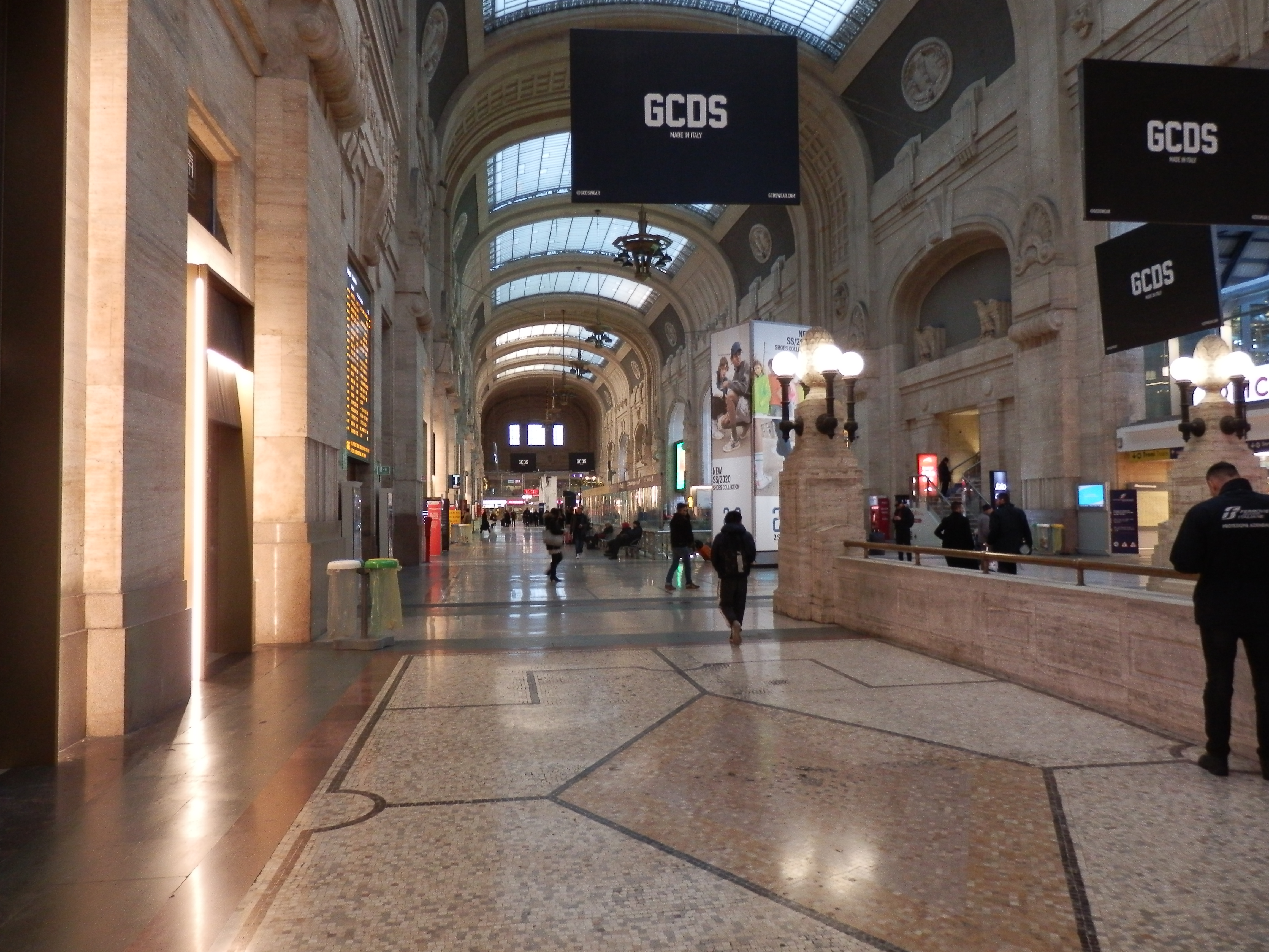 Limited flow of people when all schools are closed and seniors are encouraged to stay at home, in Milan.